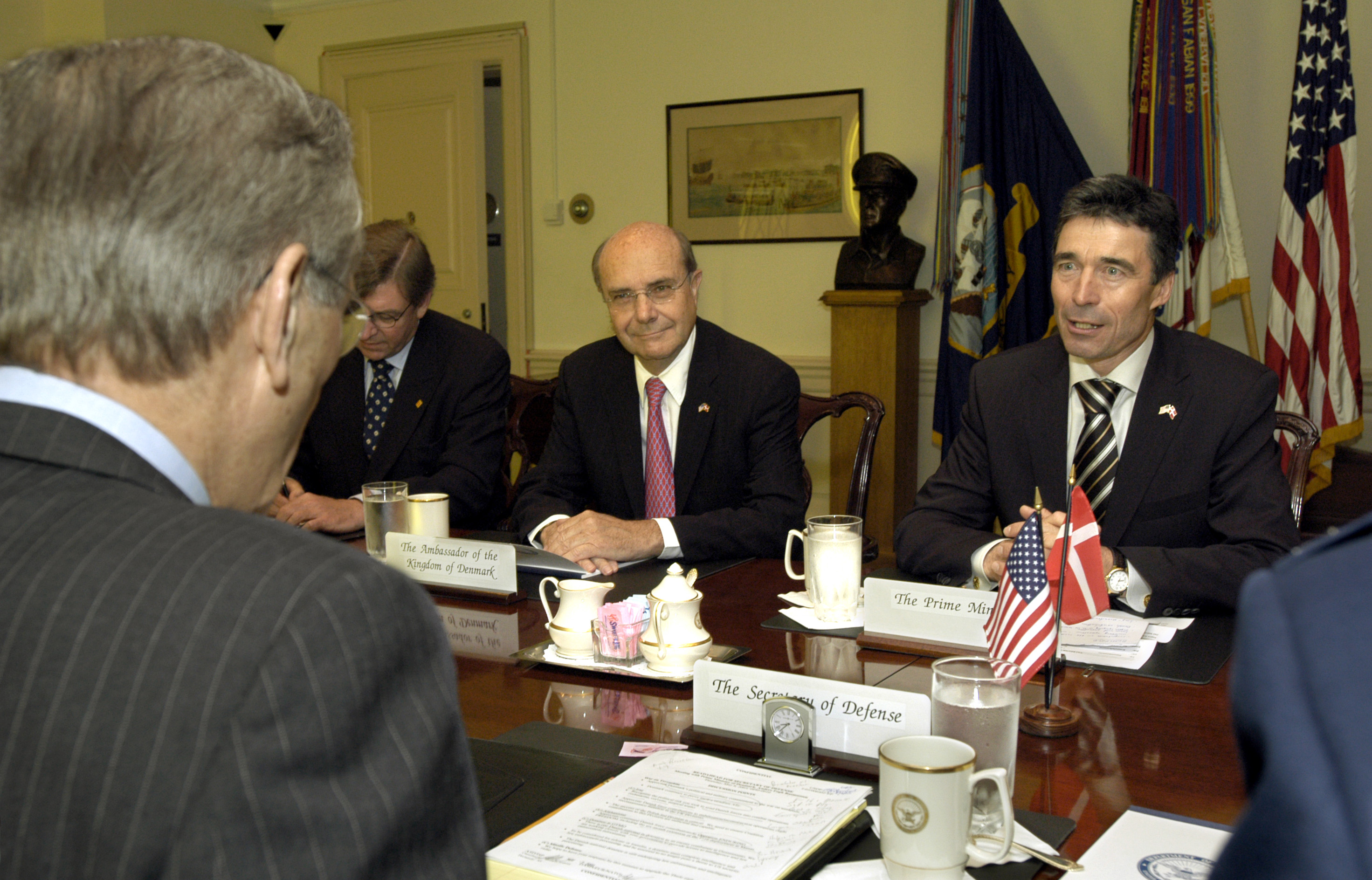 Danish Prime Minister Anders Fogh Rasmussen (right) meets with Secretary of Defense Donald H. Rumsfeld (foreground) in the Pentagon on May 8, 2003. Rasmussen is meeting with Rumsfeld and his senior advisors to discuss a range of bilateral security issues and to review the progress of rebuilding and stabilizing Iraq. Danish Assistant Secretary of State Per Poulsen-Hansen (center) and Ambassador to the United States Ulrik Federspiel (left) also participating in the talks.